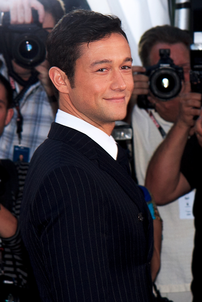 Joseph Gordon-Levitt at the 2012 Toronto International Film Festival.